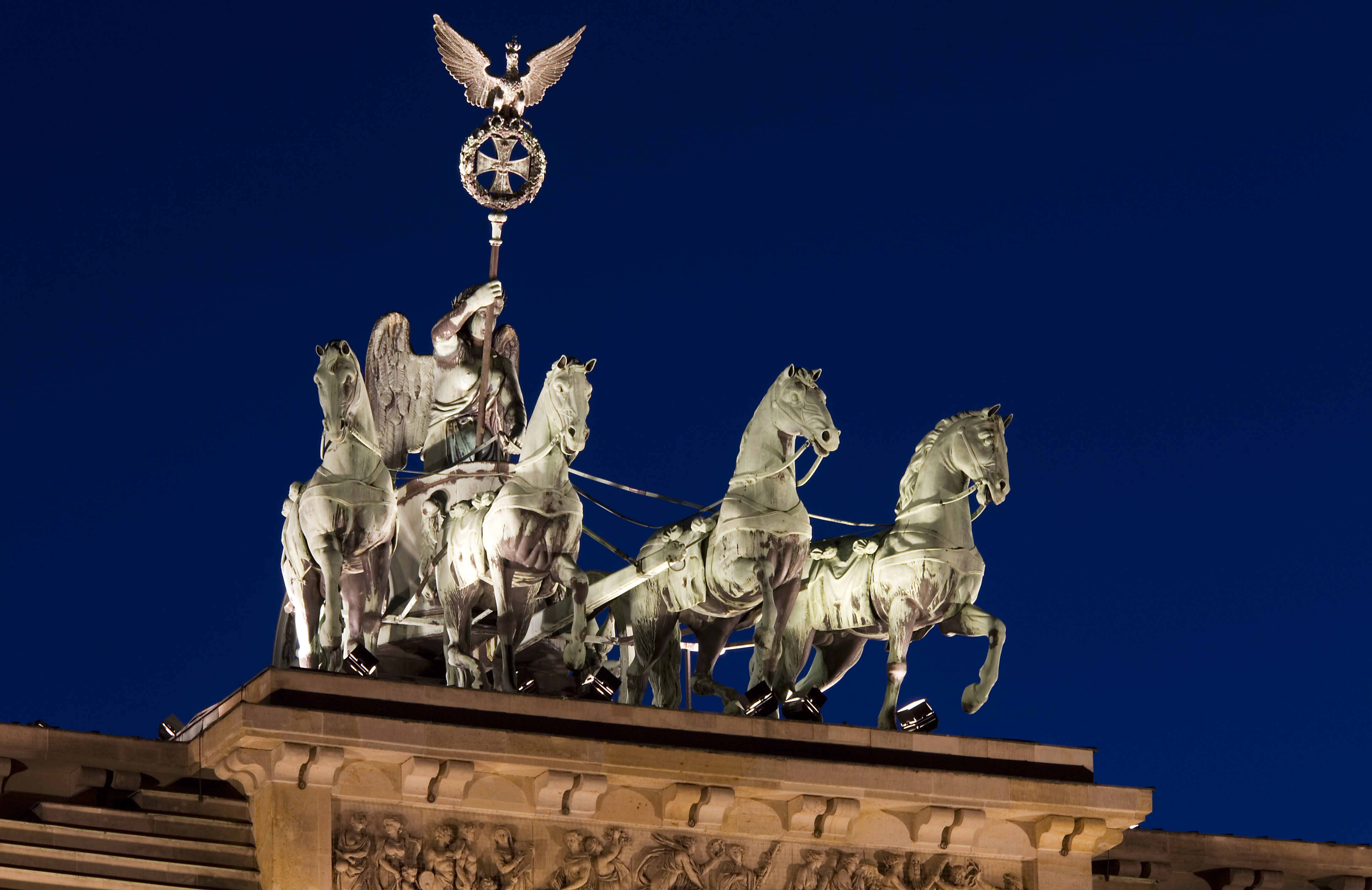 A quadriga, or four-horse chariot, atop the Brandenburger Gate (Brandemburg Tor), Pariser Platz, Berlin-Mitte, Germany